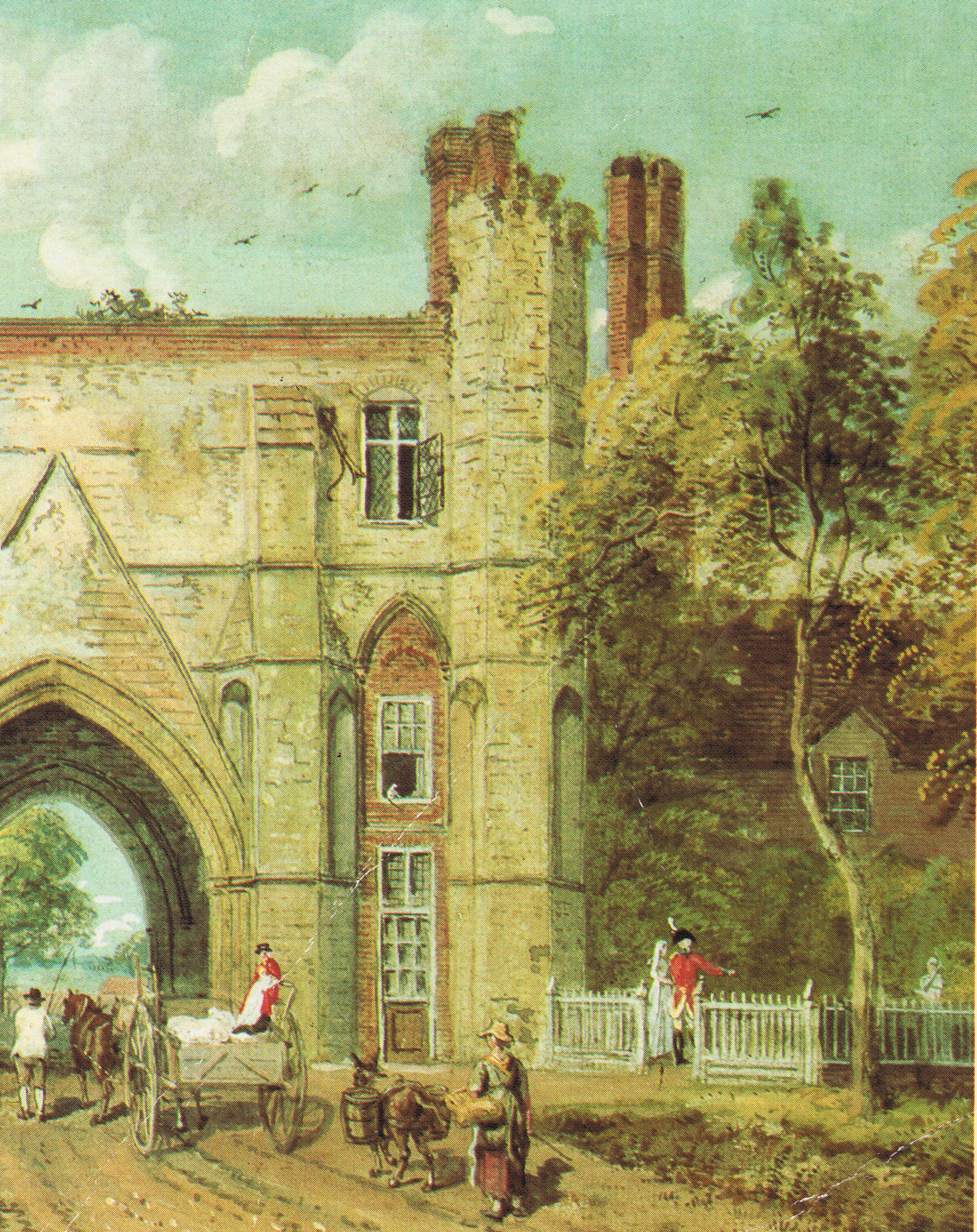 Scan of a repro of a painting by Paul Sandby, (c. 1730-1809), of Reading Abbey Gateway.